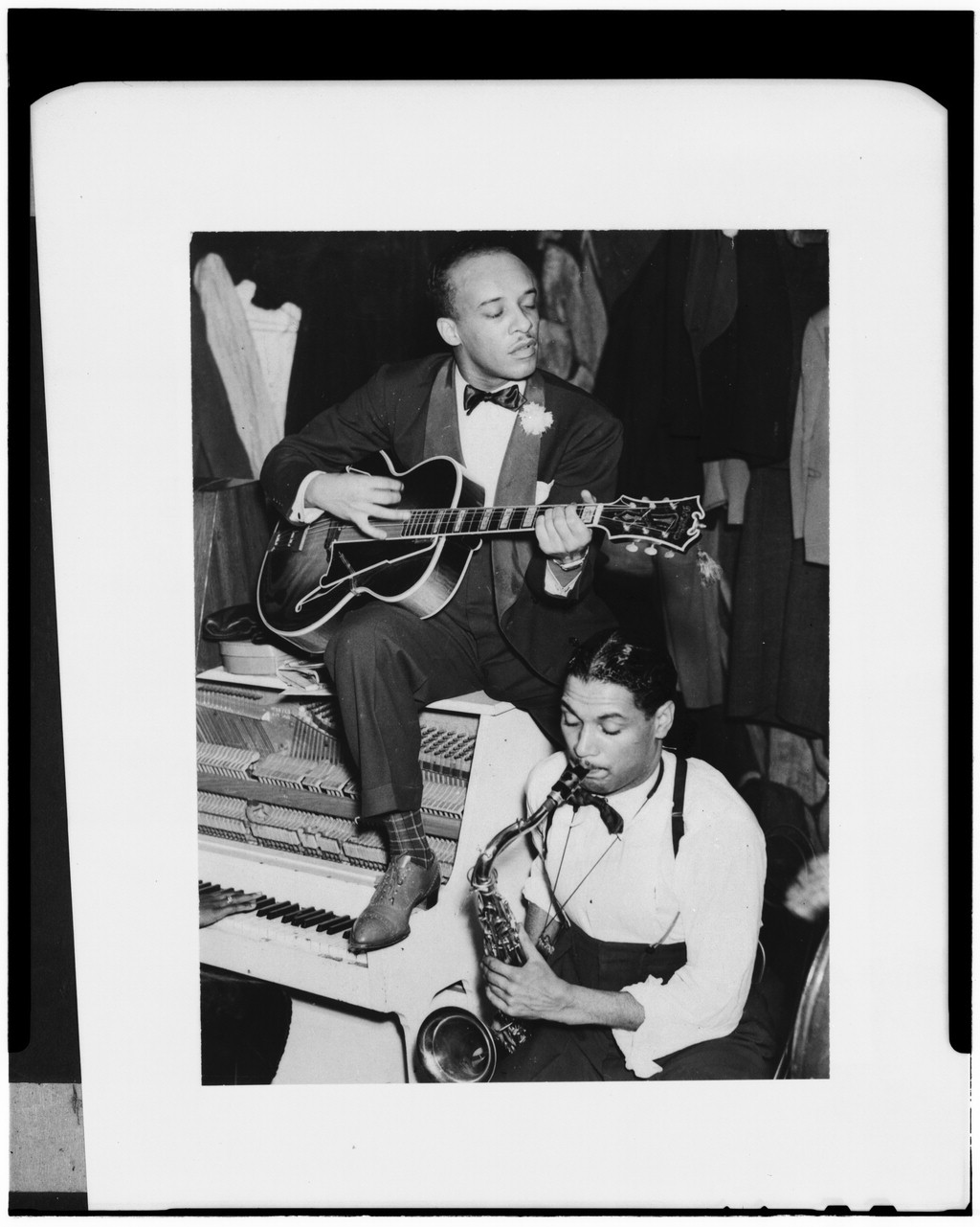 Floyd Smith and Dick Wilson, Howard Theater, Washington, D.C., photographed not after 1941